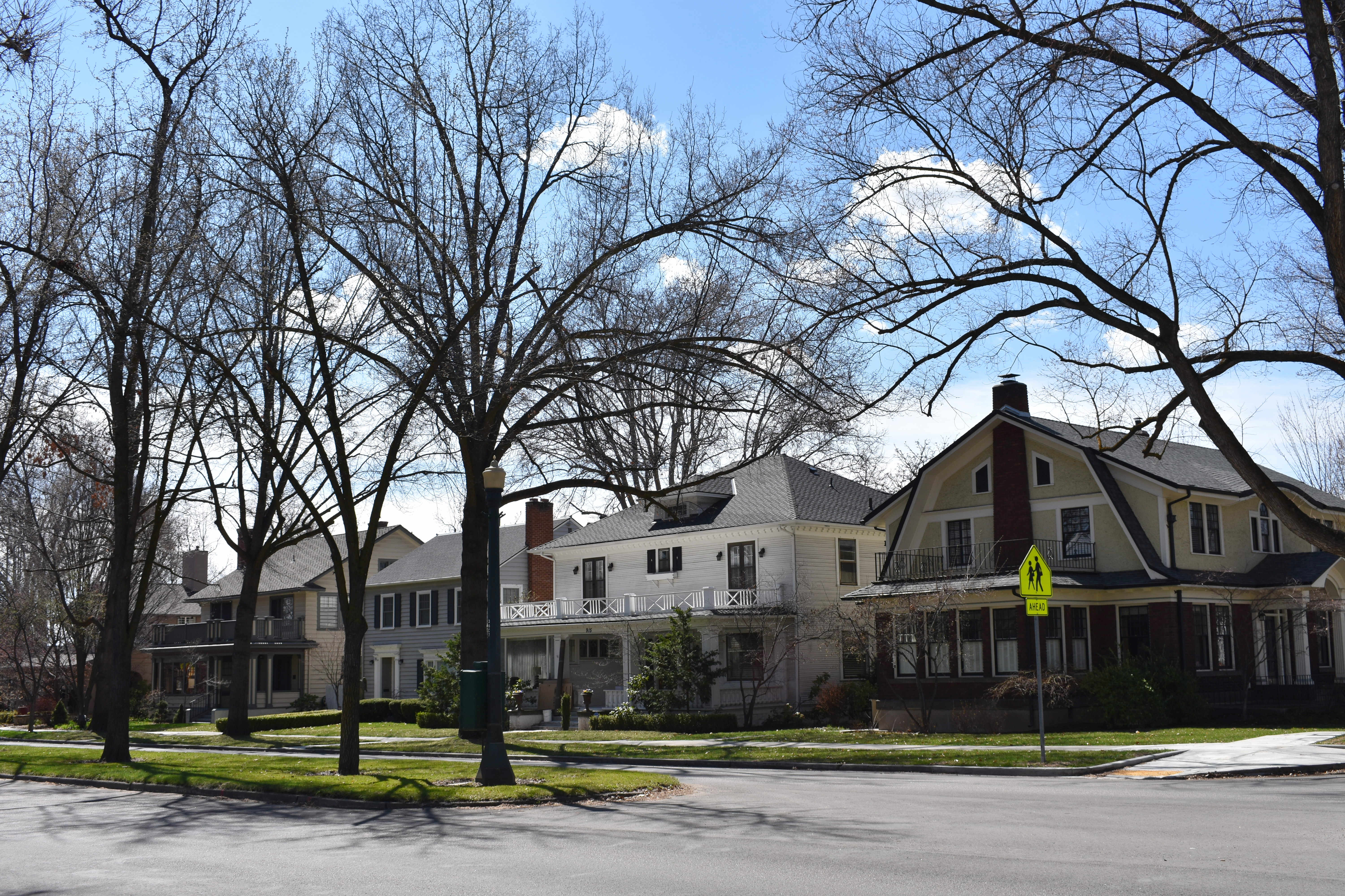 The Harrison Boulevard Historic District in Boise, Idaho, is listed on the National Register of Historic Places. The district includes 427 residences, a church, and an elementary school. Many of the houses were designed by Tourtellotte & Co., Tourtellotte & Hummel, Wayland & Fennell, or Nesbit & Paradice.